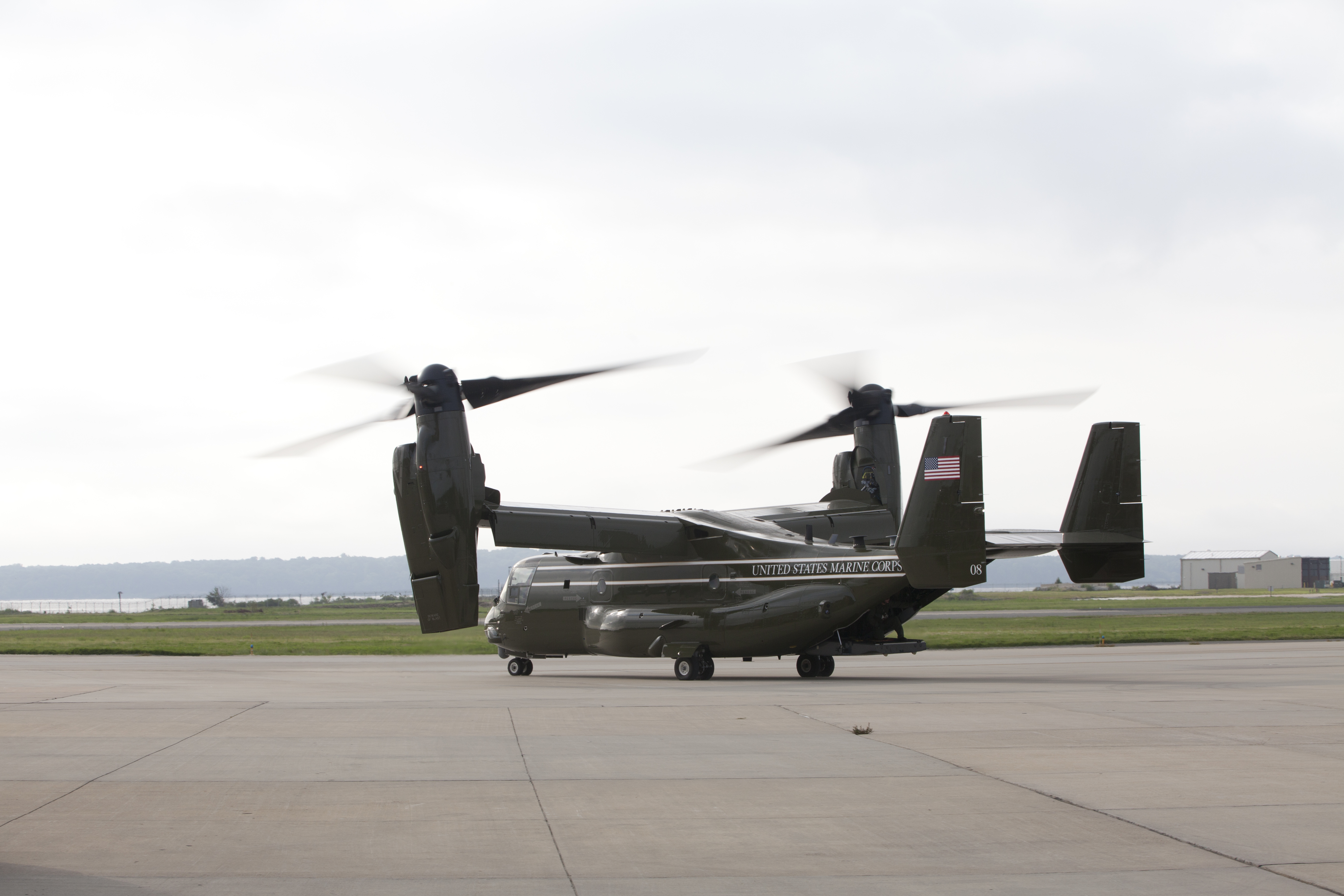 A U.S. Marine Corps MV-22 Osprey tilt-rotor aircraft sits on the flight line during a capabilities demonstration and test flight at Marine Corps Base Quantico, Va., July 22, 2014. The British Royal Marines Commandant General Maj. Gen. Martin Smith, not shown, and his staff were on hand to view the aircraft. (U.S. Marine Corps photo by Staff Sgt. Brian Lautenslager, HQMC Combat Camera/Released)